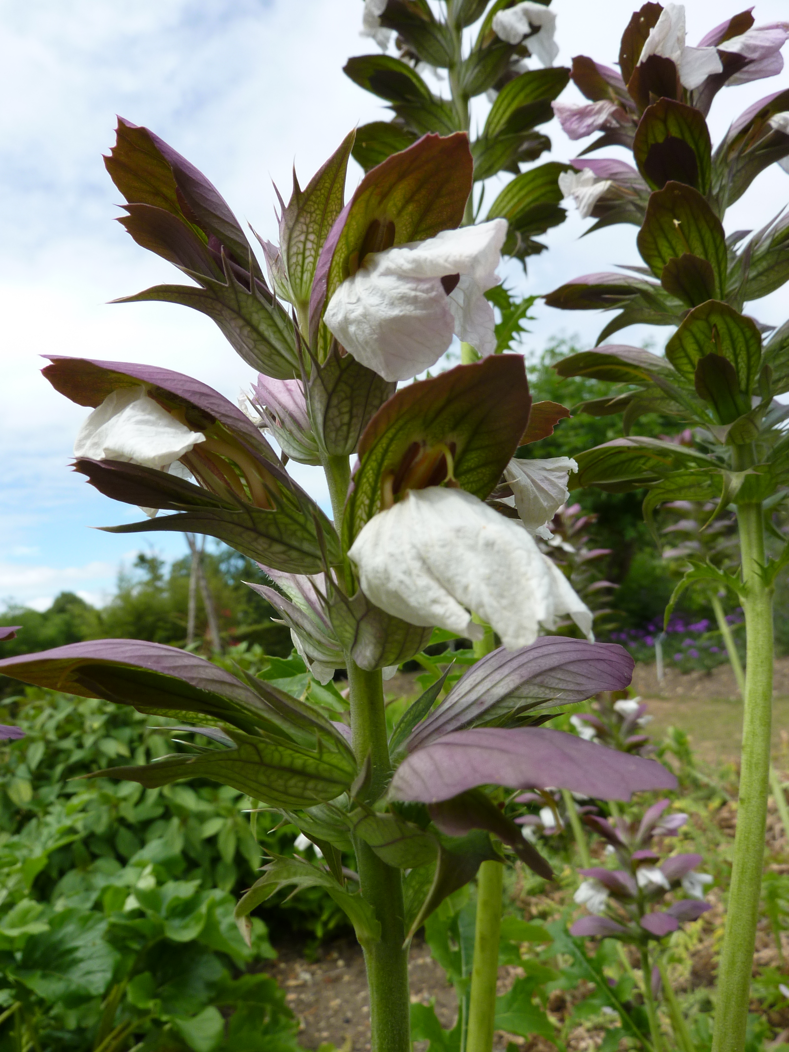 Taken in the Cambridge University Botanic Garden